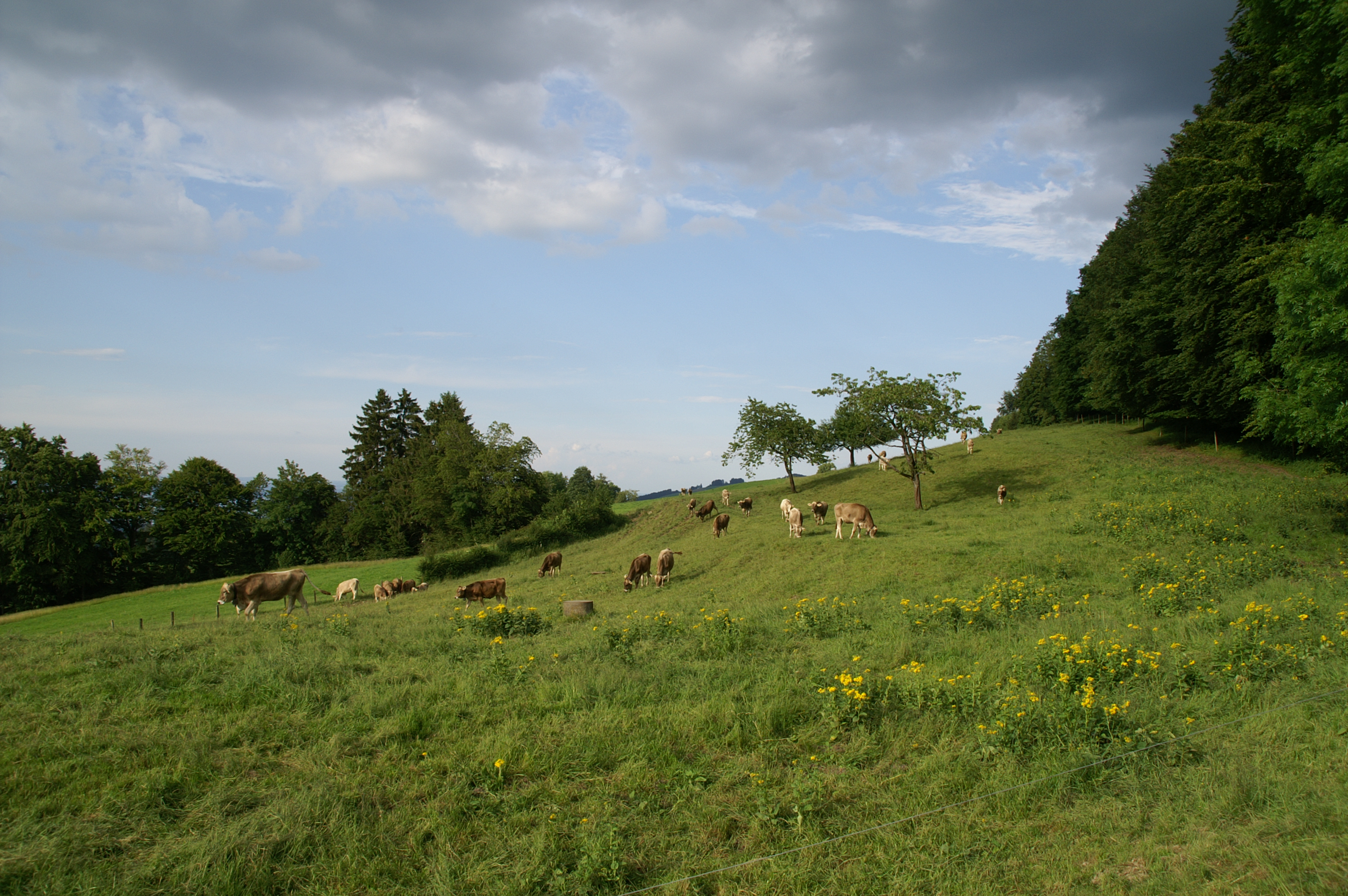 swiss landscape with cows, woods